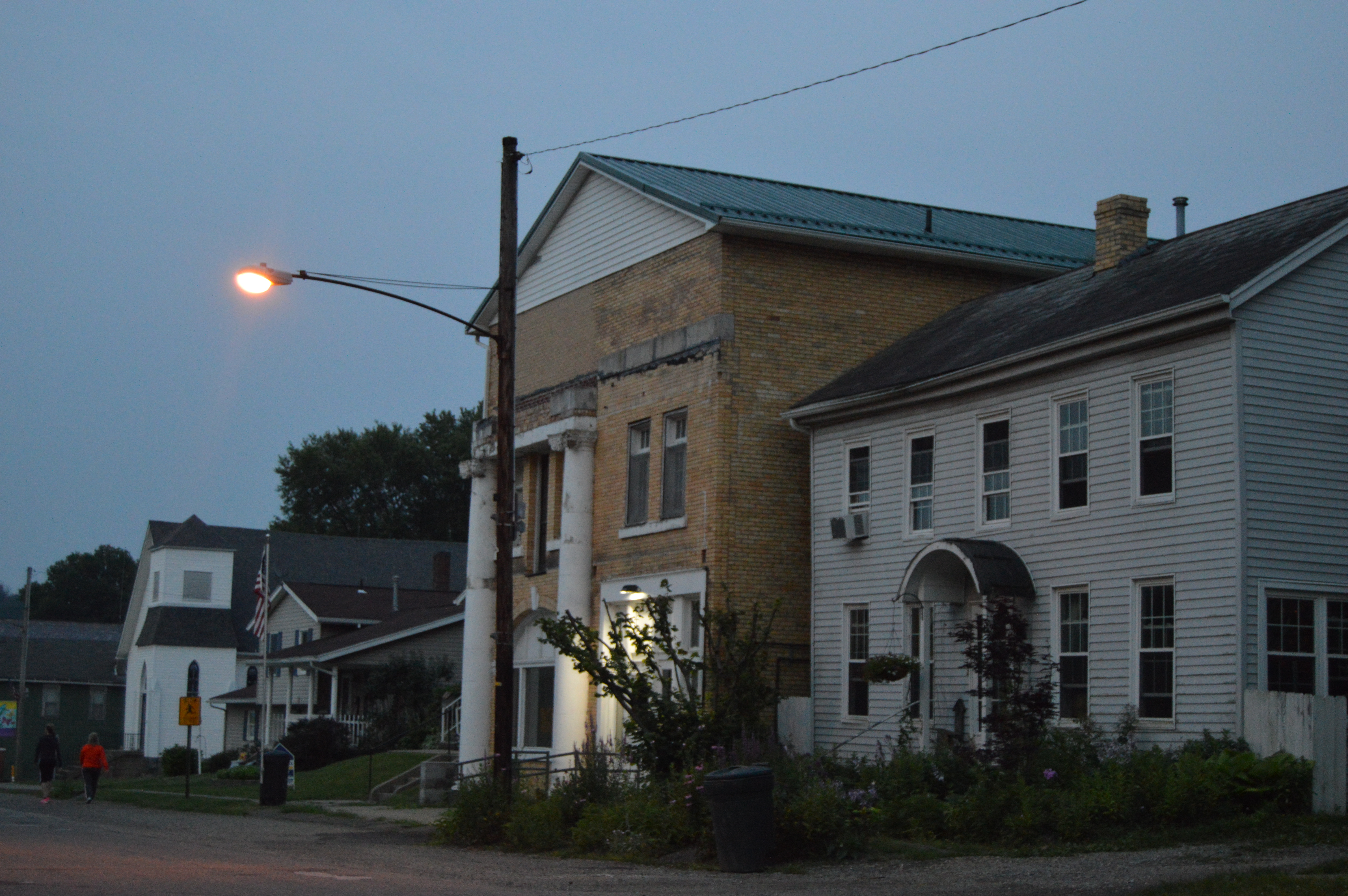 Buildings on Main Street west of the Mill Street intersection in Pleasant City, Ohio, United States.